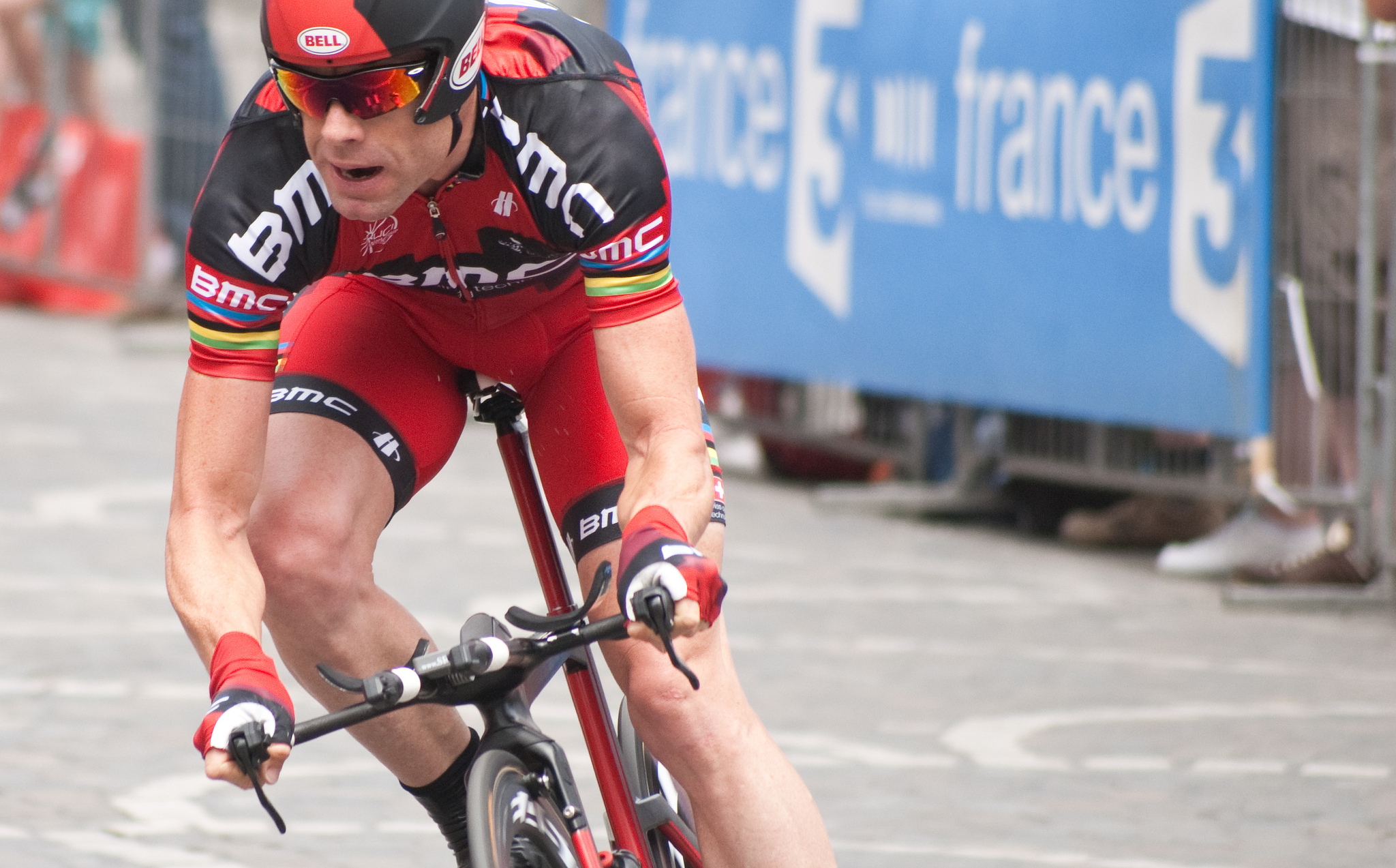 001 Cadel Evans In about three hours he will set out to win the Tour another time.